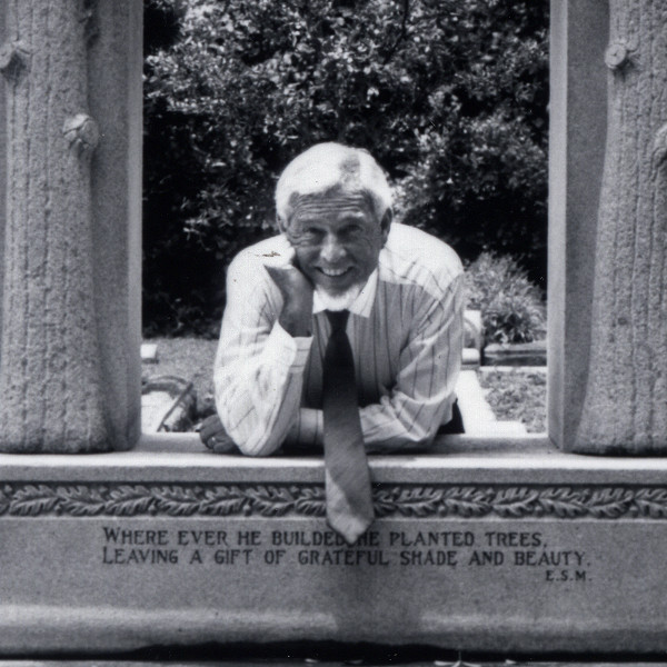 Burdette Keeland Jr. leaning forward in the middle of a memorial to members of the MacGregor and DeMerrit families.